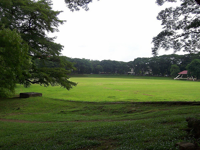 Sunken Garden of University of the Philippines Diliman